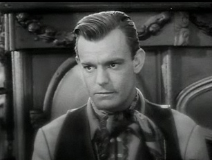 Cropped screenshot of Dennis O'Keefe from the trailer for the film The Kid from Texas (1939).